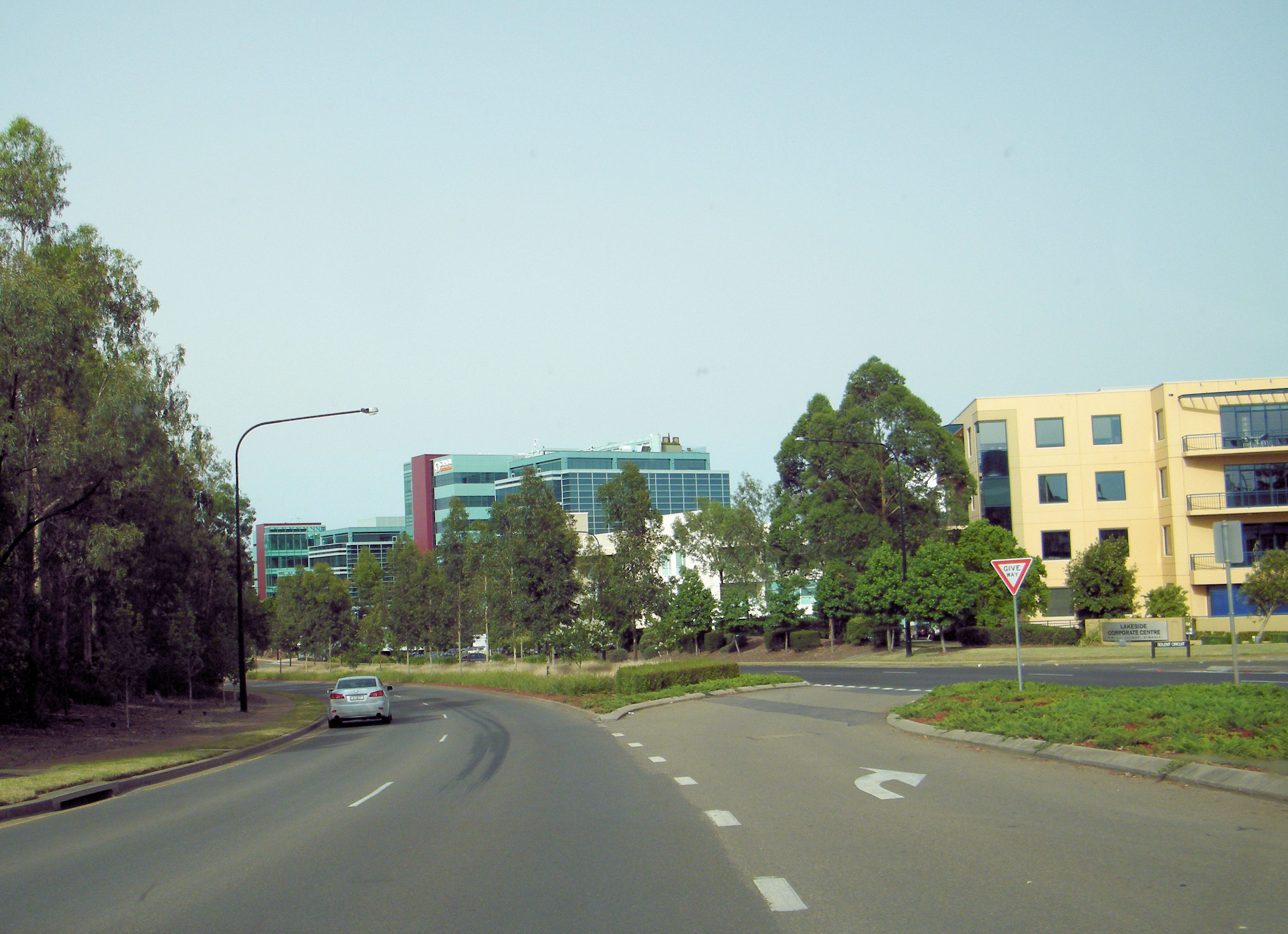 Driving westbound on Norwest Boulevard in the morning in Norwest Business Park, Bella Vista. Photographed by user Coolcaesar on November 27, 2009.